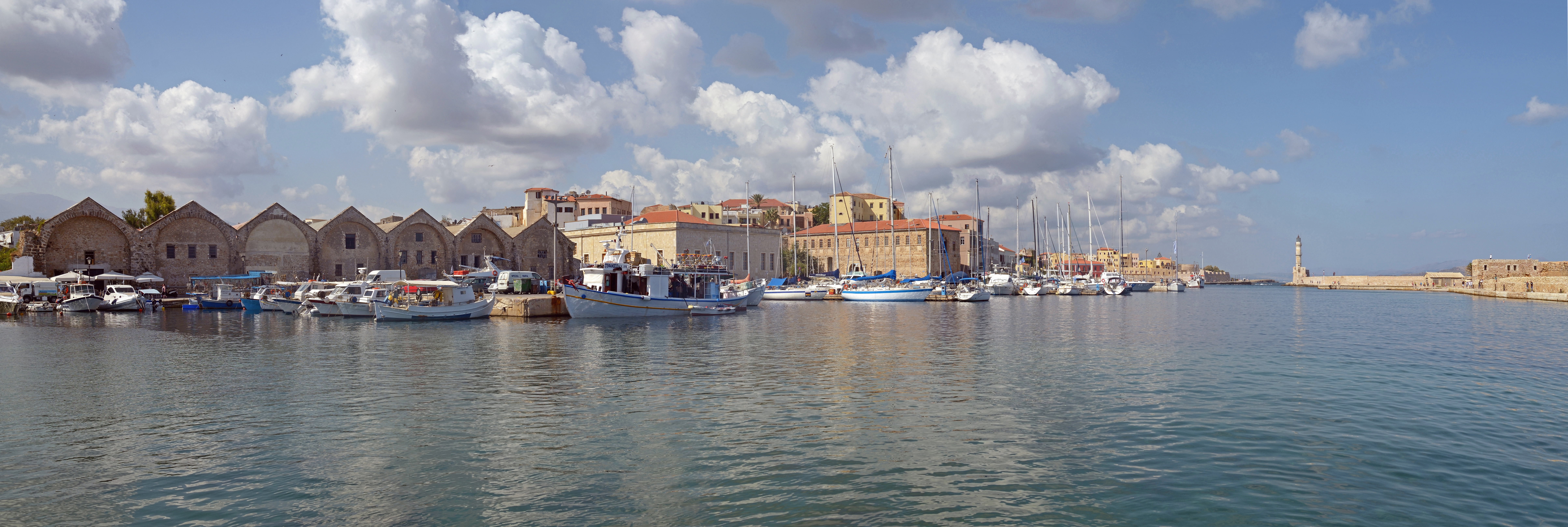 Harbor, Venetian shipyards, Megalo Arsenali and Lighthouse in Chania. Crete, Greece.jpg